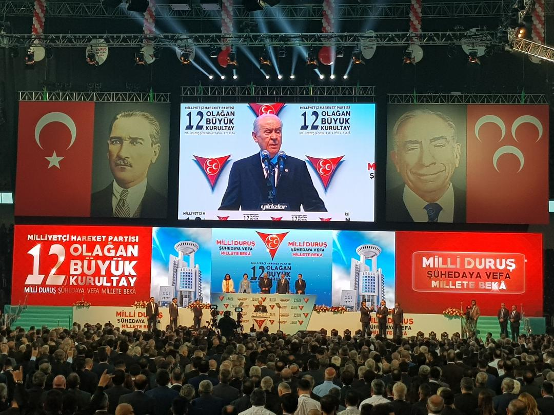 The Turkish Nationalist Movement Party (MHP) holding its 12th ordinary congress